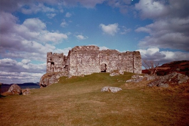 Castle Sween This 12th century castle is one of the earliest in Scotland.